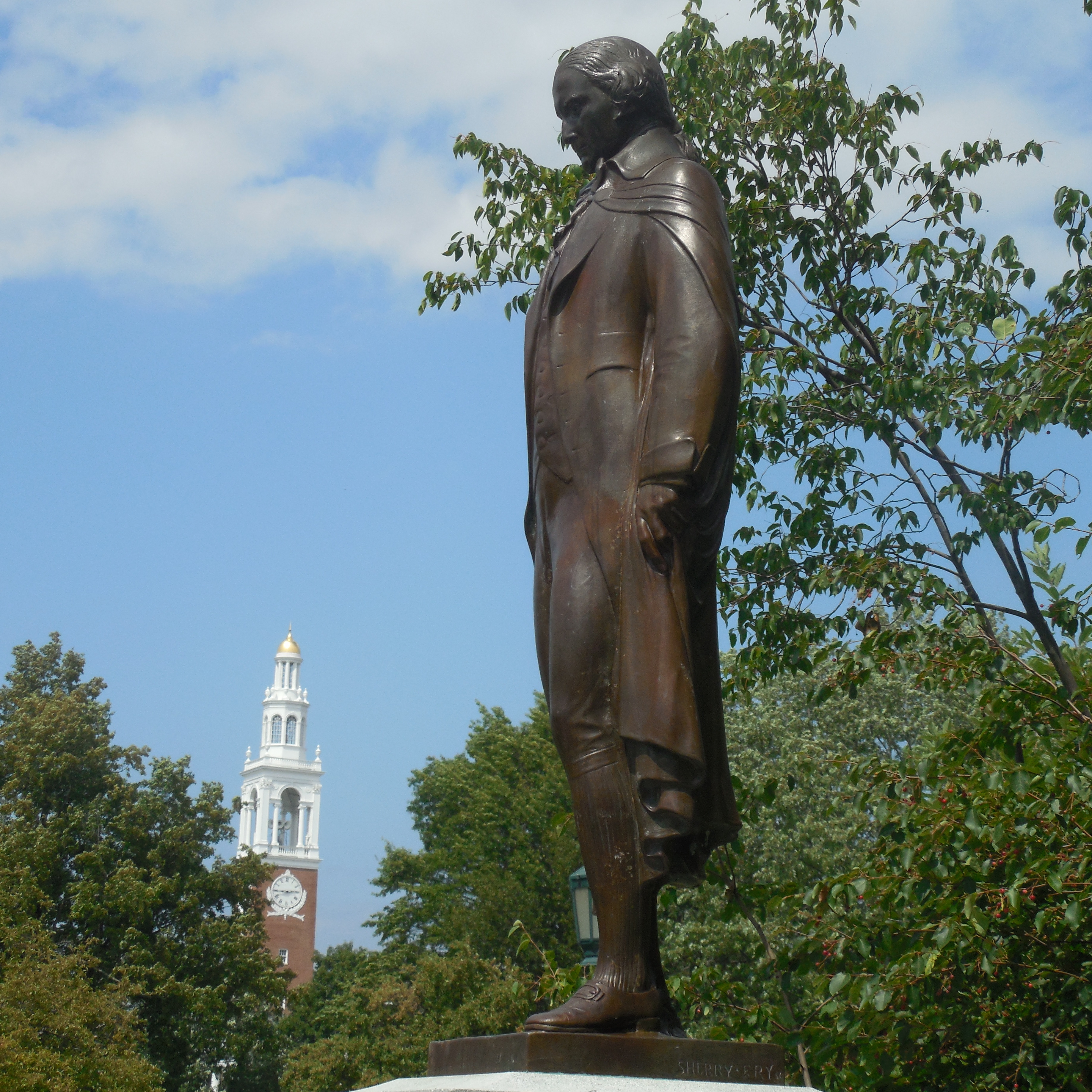 Bronze monument of UVM's founder, Ira Allen at the University Green, University of Vermont (Sculptor: Sherry Fry, circa 1921); Ira Allen Chapel in the background: 18 Jul 2015